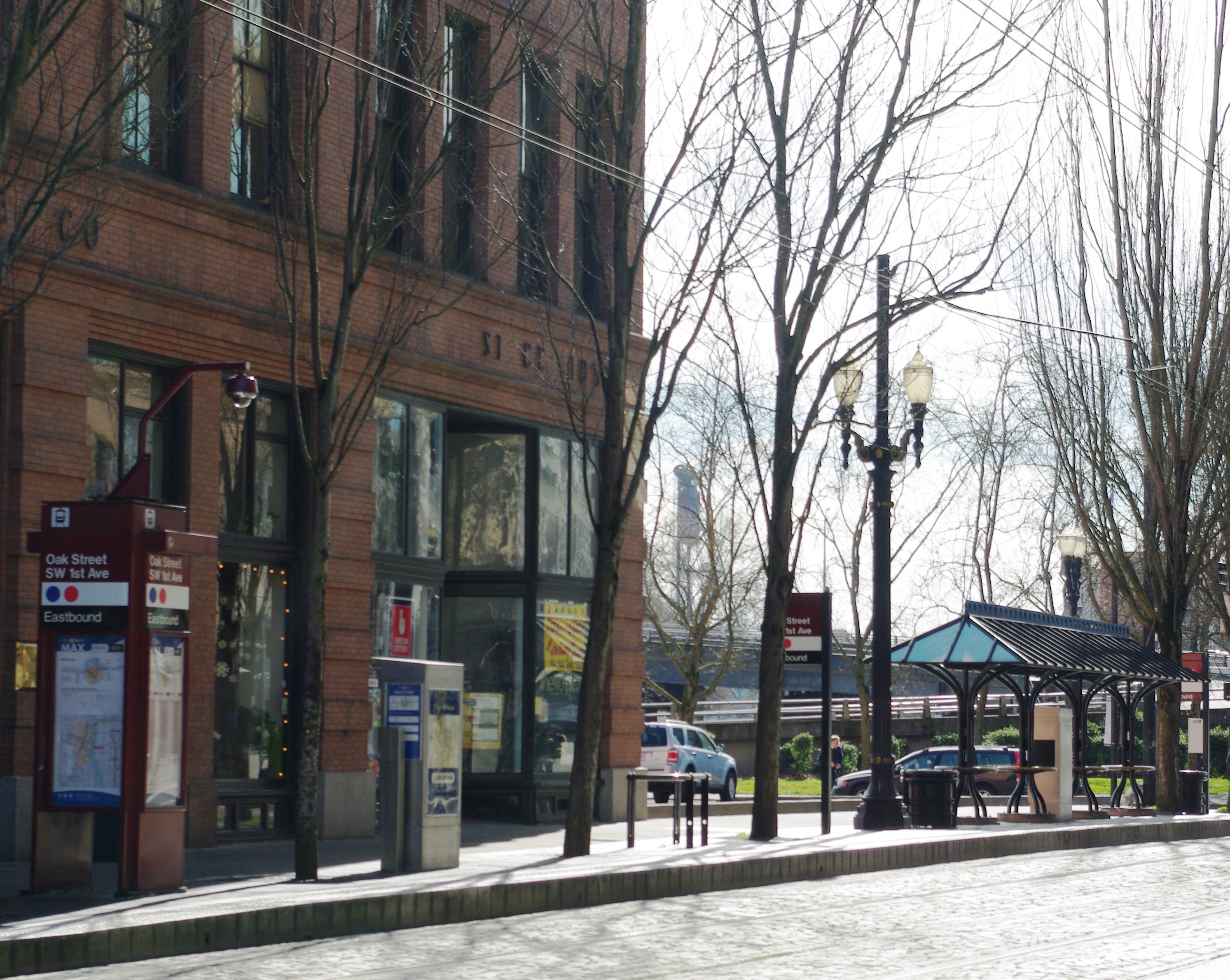 Oak Street MAX station, on SW 1st Avenue between Oak and Stark streets in downtown Portland